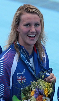 British team won bronze on the 4x200 relay. Photo cropped to show Jazmin Carlin.